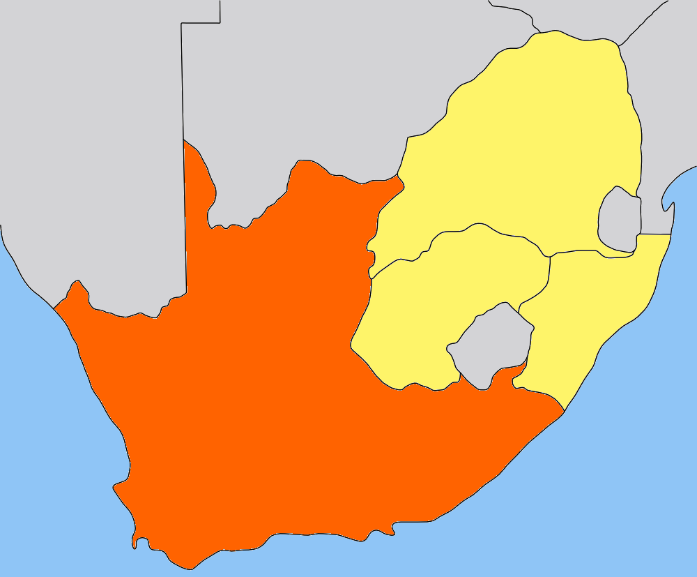 Map of the Cape Colony/Cape Province in South Africa. Traced by hand in Inkscape from older version of this image, recoloured in the GIMP.